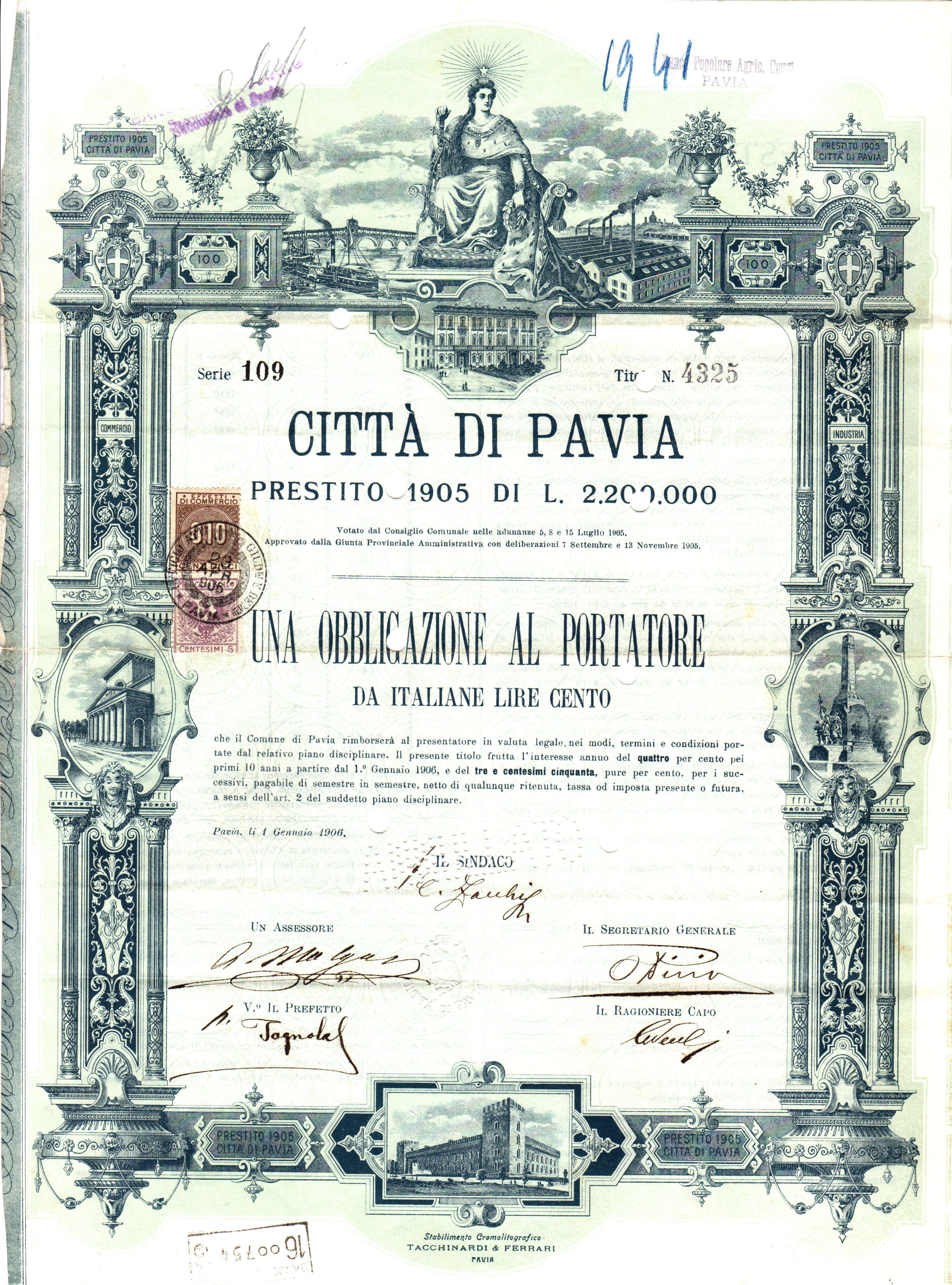 Bond of the City of Pavia, issued 1. January 1906